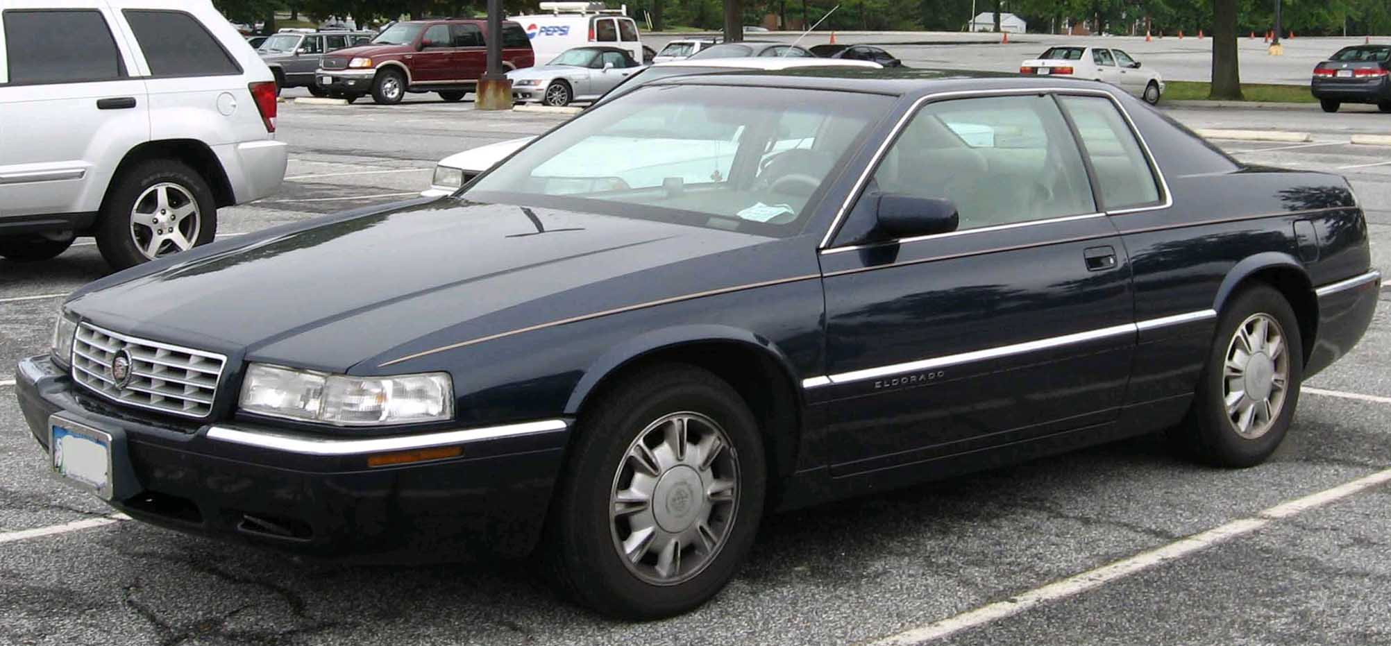 1992-2002 Cadillac Eldorado photographed in the USA.